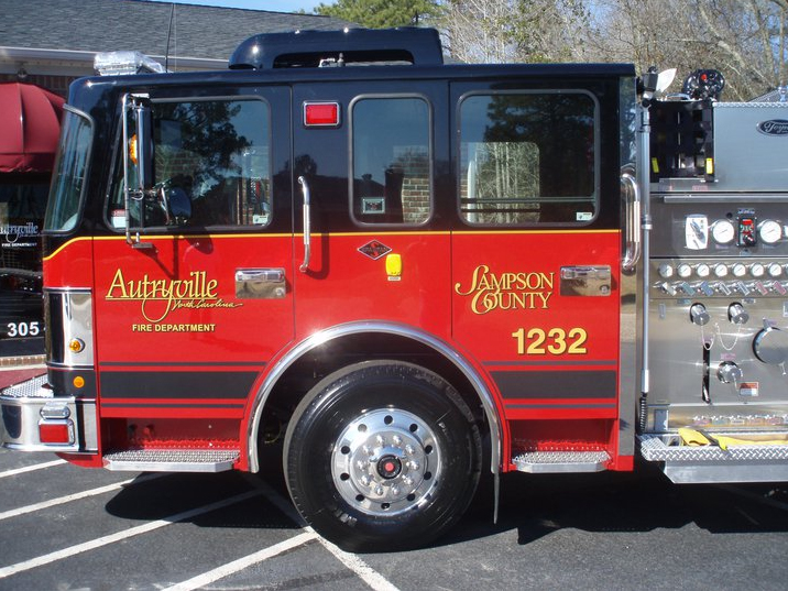 Engine 1232: 2009 1500/1000 Spartan of the Autryville Fire Dept.